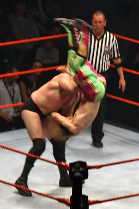 Gene Snitsky body slams Brian Kendrick. Taken during the WWE Raw - Survivor Series Tour, at Rod Laver Arena, Melbourne Park, Melbourne, Australia. Kendrick and Snitsky wrestled on the night; the match was won by Snitsky pinning Kendrick following a pump-handle slam.